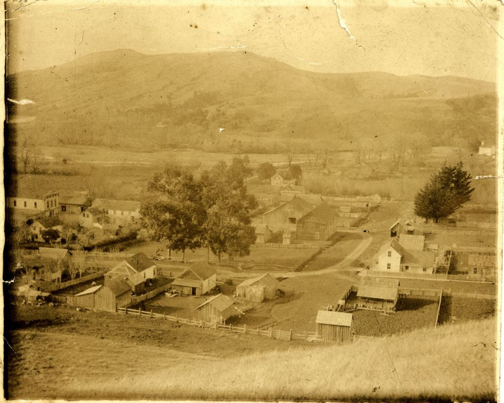 A view of Petrolia from the hill to the east-northeast of the Square before the 1903 fire. Buildings still standing include: Ocean Berg’s/Watson-Cady house); Mary Day’s/Lucy Wright and Elias Hunter’s; Swaffords’/Jack and Vivian Susan Wright’s, called Briarcrest; the Leonard Cook/Mayme Hunter’s house on the southeast corner of the Square; and various sheds and barns that have survived. Buildings which burned and are gone include: The old Knights of Pythias hall where the Mattole Valley Historical Society museum sits in 2020 - on the Square. To the south/left, the original hotel; the John Mackey store, and other lost buildings on Front St., along the far left. On the hill behind the North Fork valley, you can see a house, about a third of the way from the left of the photo.